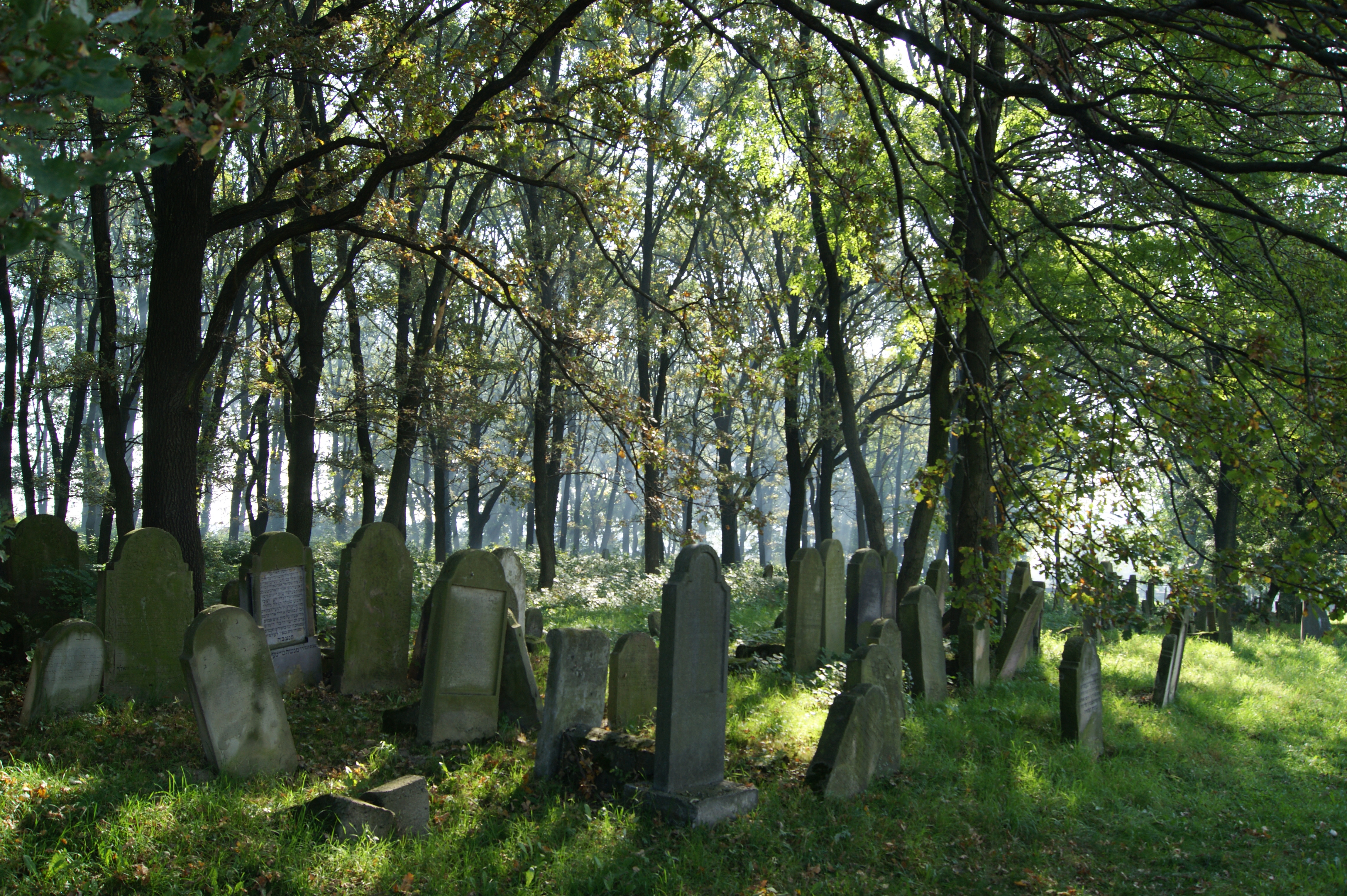 New Jewish cemetery1, Czarnowiejska street, Brzesko, Poland